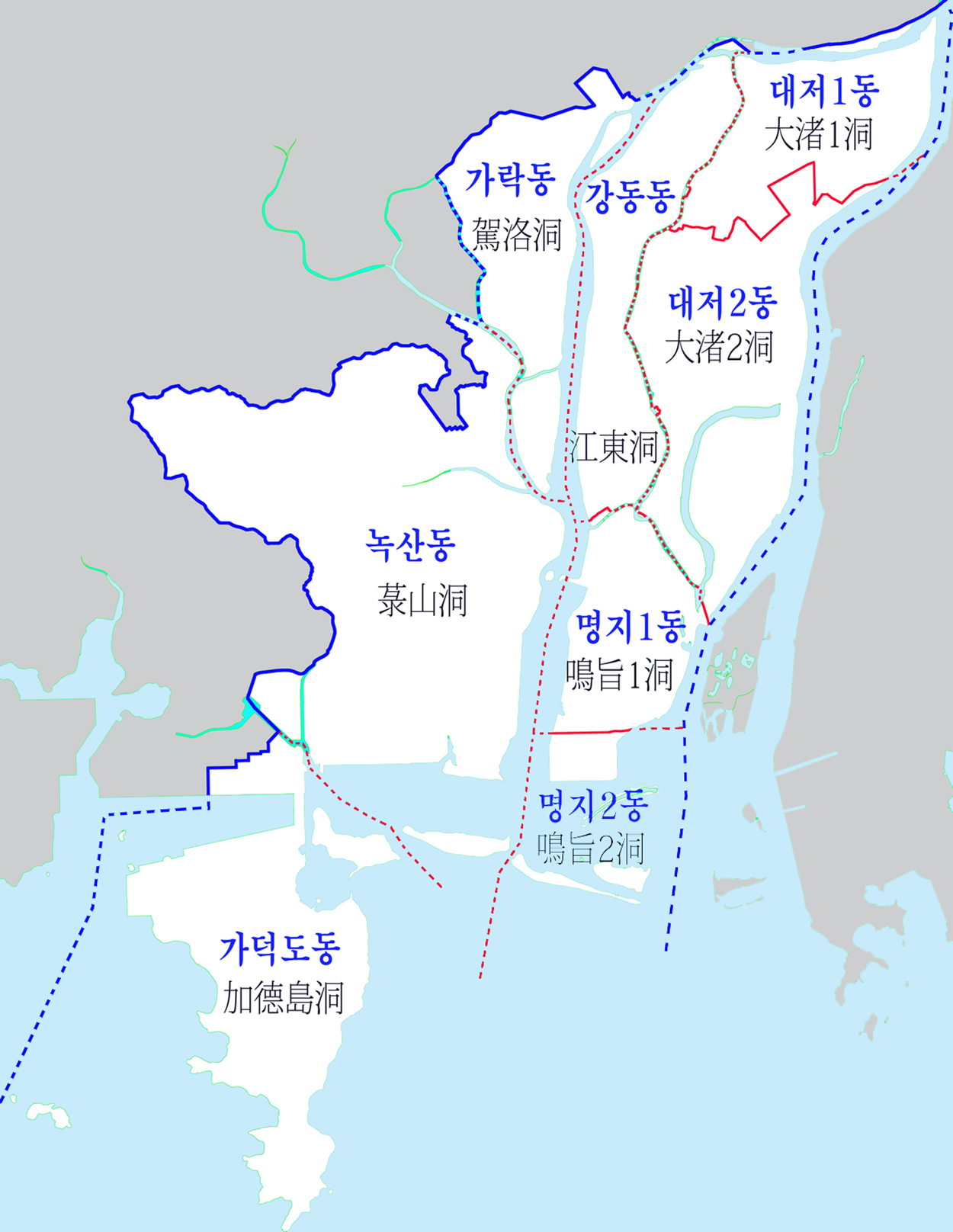 Busangangseo-map